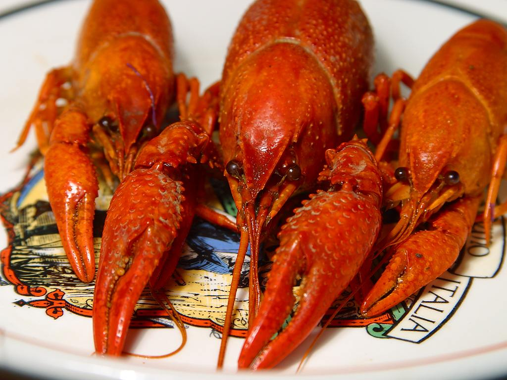 Three crayfish went to meet their maker. This image is much better than the last one. Crawfish - 2003-03-26 Camera: Canon D60, Not recorded, Lens: Not recorded, Not recorded, Not recorded, ISO Not recorded Keywords: crawfish crawdads craytfish License: This image is public domain. You may use this image for any purpose, including commercial. If you do use it, please let me know. I enjoy seeing what others have created with these photos. This work is dedicated to the Public Domain.